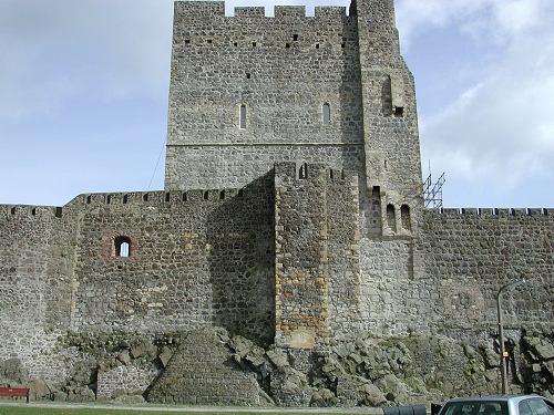 no rights reserved.